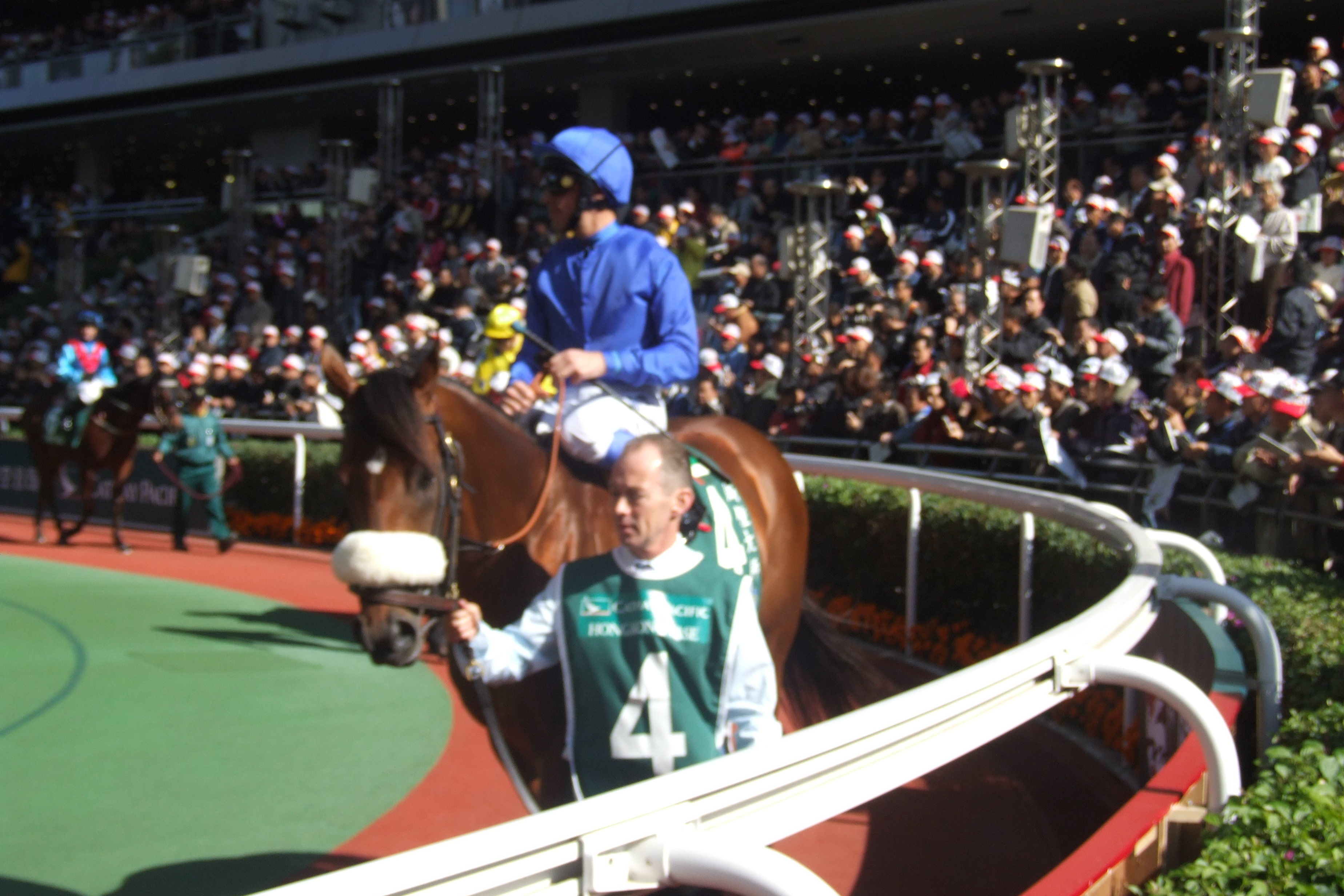 Campanologist, G1 winner